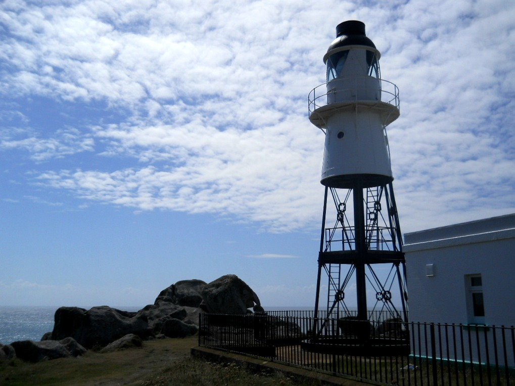 faro di peninnis, peninnis head, st mary's, isole scilly